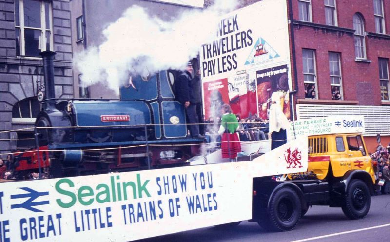 Ffestiniog Railway locomotive Britomart at a parade in Dublin to advertise the ferries between Ireland and Wales.